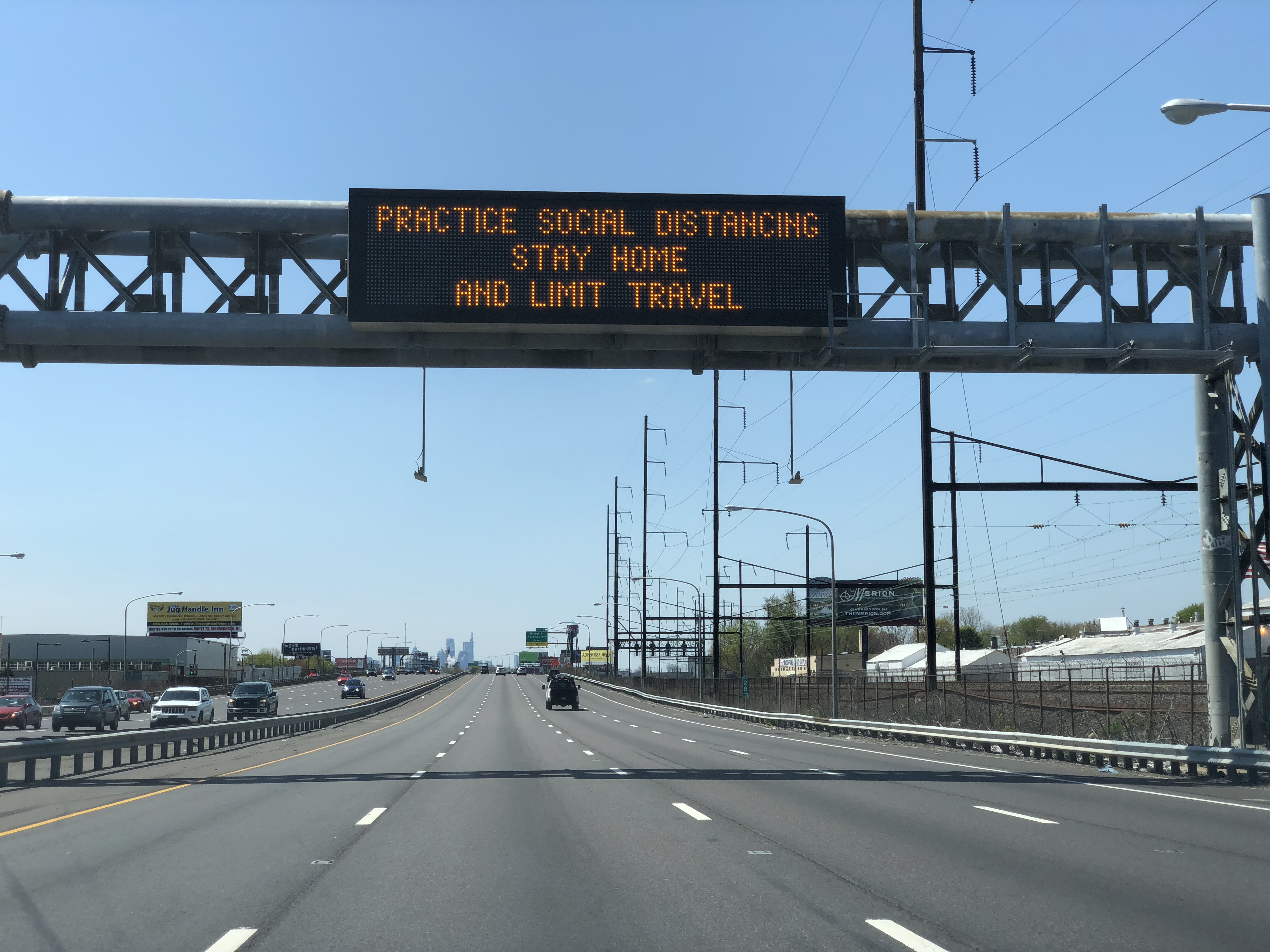 Variable message sign reading "Practice social distancing stay home and limit travel" along southbound Interstate 95 (Delaware Expressway) just north of Exit 27 in Philadelphia, Pennsylvania